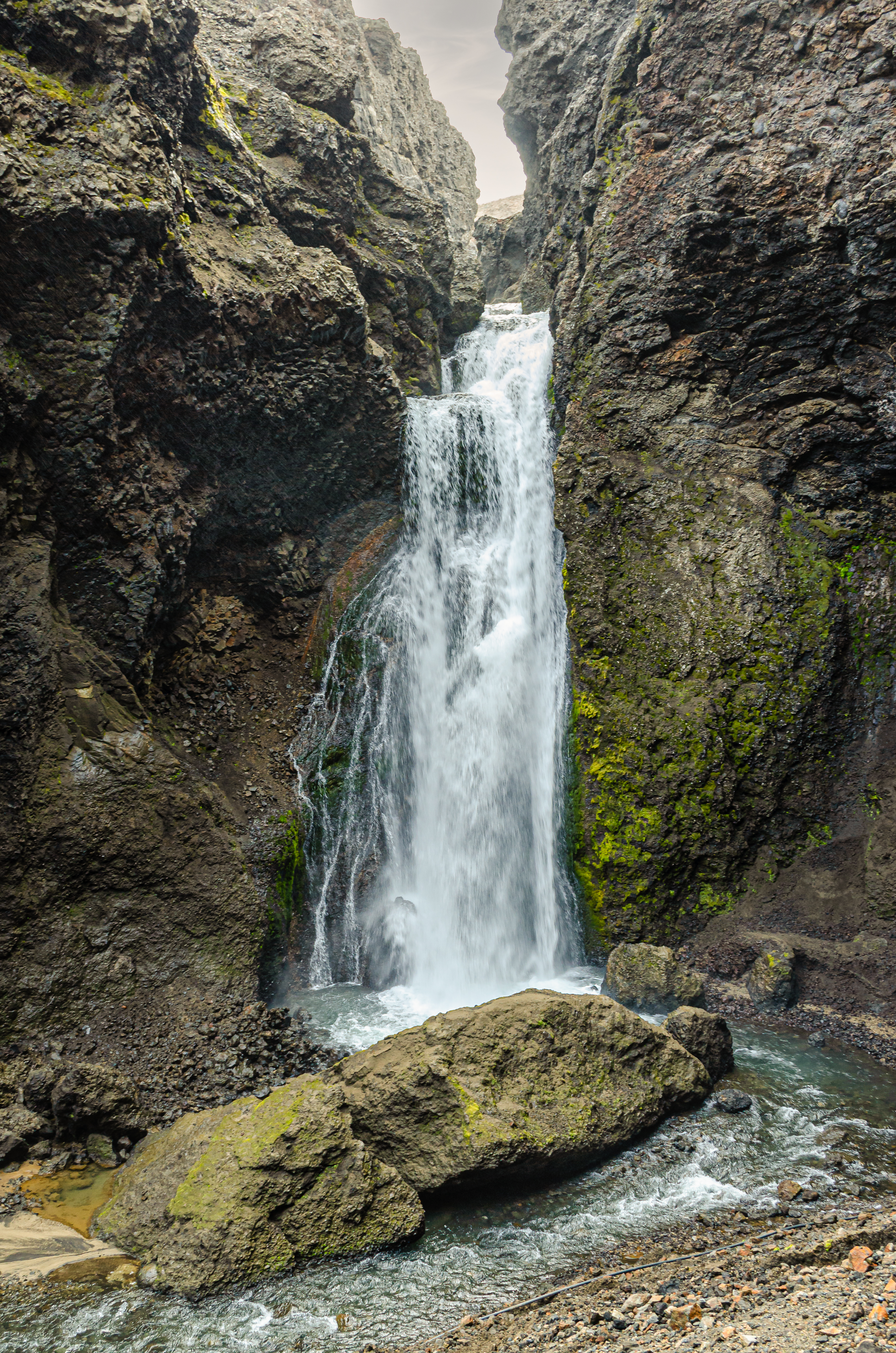 Waterfall in the Drekagil canyon, Askja area, Iceland